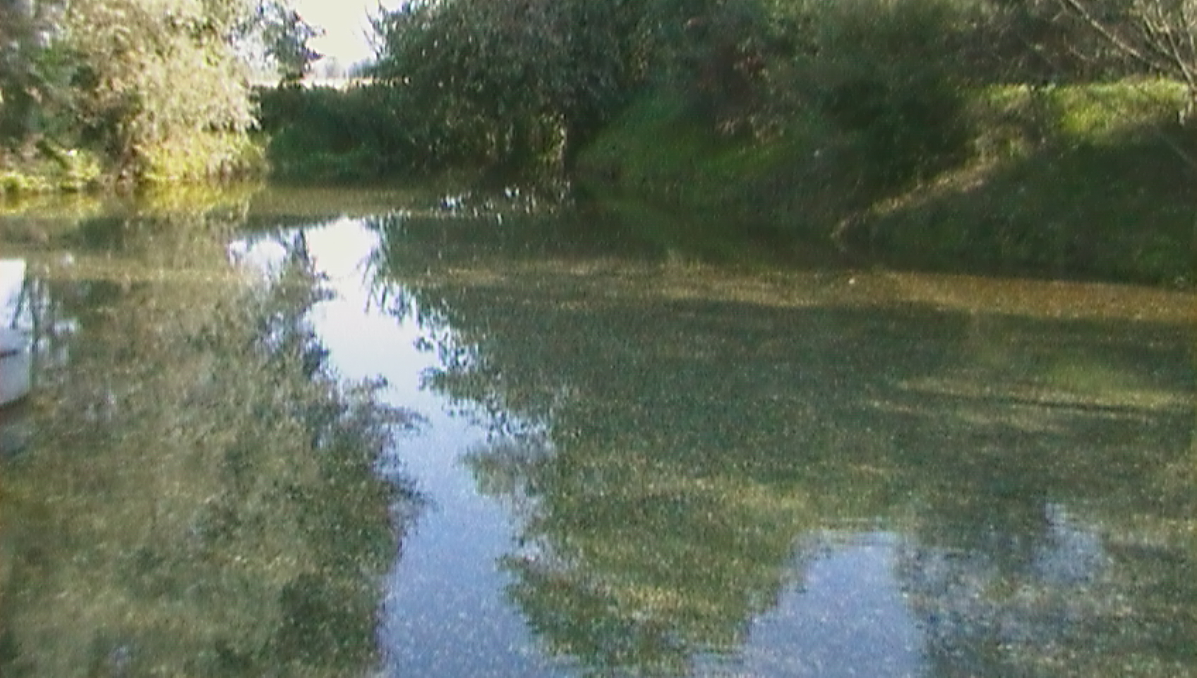 A view of a spring of water in Capralba